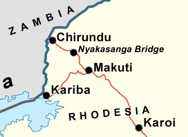 Map showing location of Nyakasanga Bridge, the location of an engagement between the Rhodesian Light Infantry and the Zimbabwe African National Union on 25 September 1966